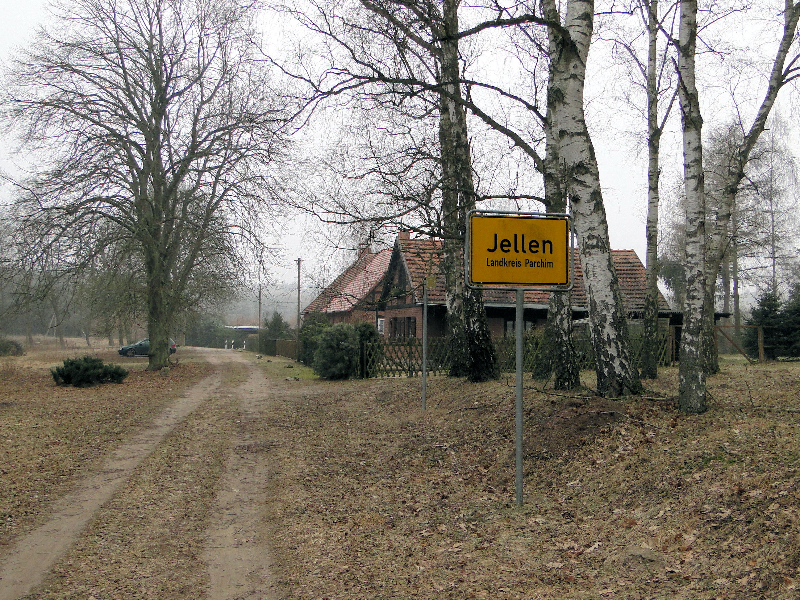 City limit sign and buildings in Jellen, district Parchim, Mecklenburg-Vorpommern, Germany